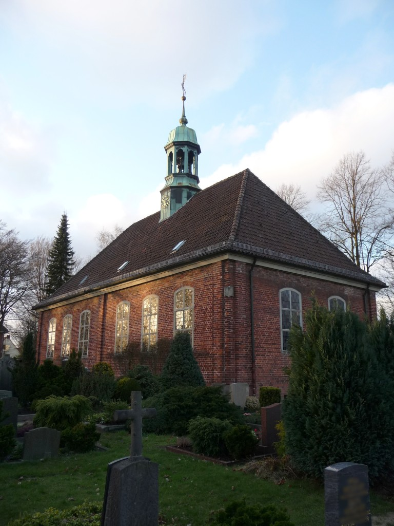 Church with graveyard in Bremen-Rablinghausen, Germany